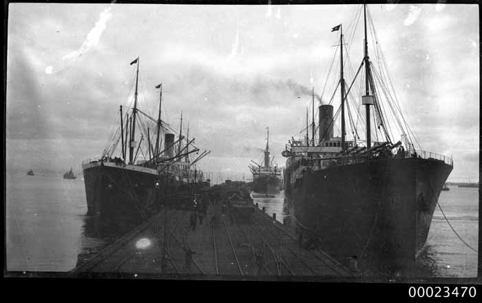 SS PERSIC was built in 1899 and scrapped in 1927. SS CERAMIC was built in 1913 and was active on the Australia route. In 1934 CERAMIC was sold to the Shaw, Savill & Albion Line. In 1942 the ship was enroute to Australia when it was torpedoed in the Atlantic Ocean by a German U-boat. There was only one survivor of the 656 onboard. This photo is part of the Australian National Maritime Museum’s Samuel J. Hood Studio Collection. Sam Hood (1870-1956) was a Sydney photographer with a passion for ships. His 72-year career spanned the romantic age of sail and two world wars. The photos in the collection were taken mainly in Sydney and Newcastle during the first half of the 20th century. The ANMM undertakes research and accepts public comments that enhance the information we hold about images in our collection. This record has been updated accordingly. Photographer: Samuel J. Hood Studio Collection Object no. 00023470